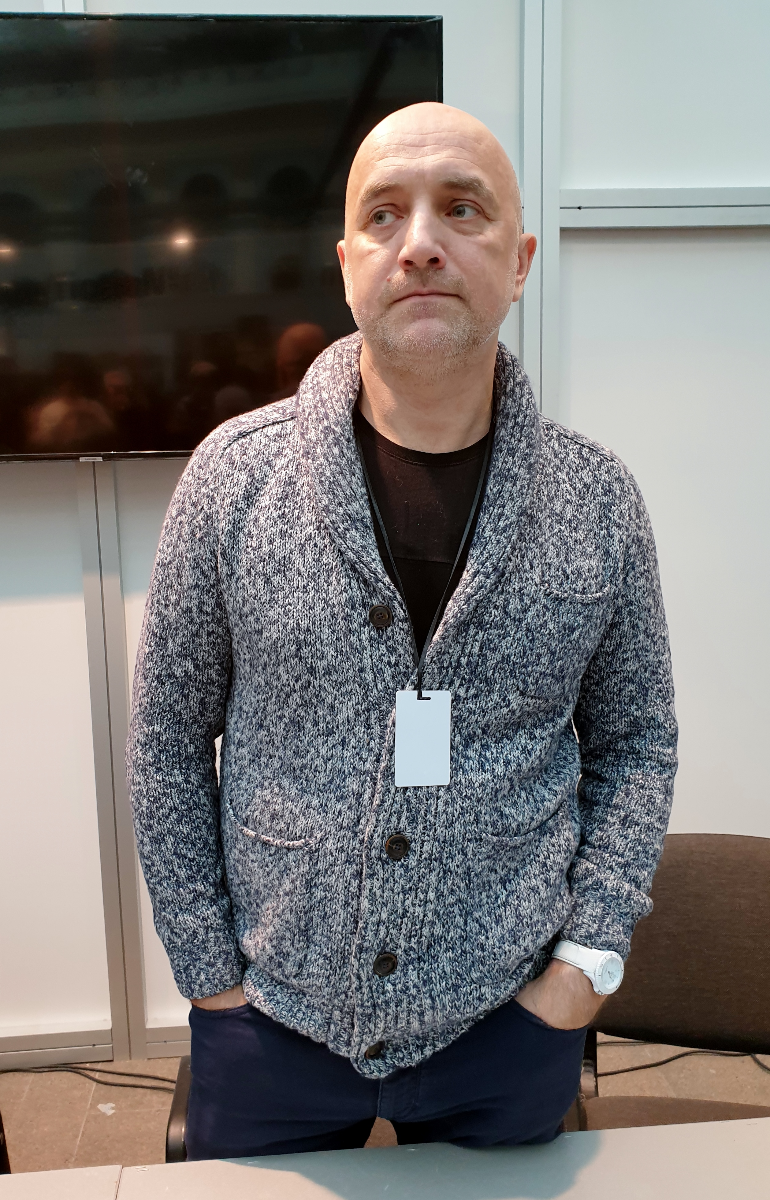 Russian writer Zakhar Prilepin at the 21 Moscow International Fair Non/fiction 2019